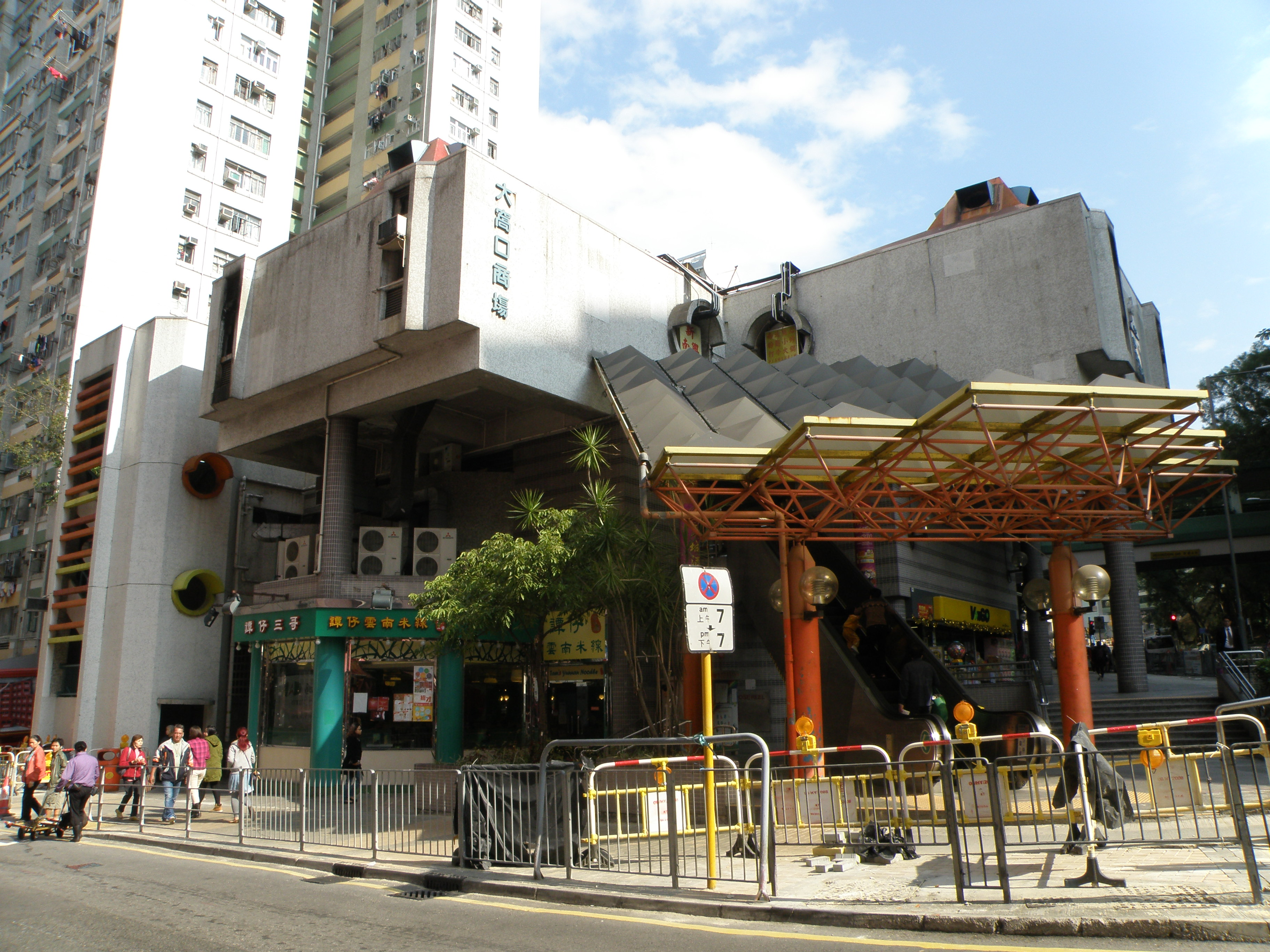 Tai Wo Hau Shopping Centre in Tai Wo Hau, Hong Kong.